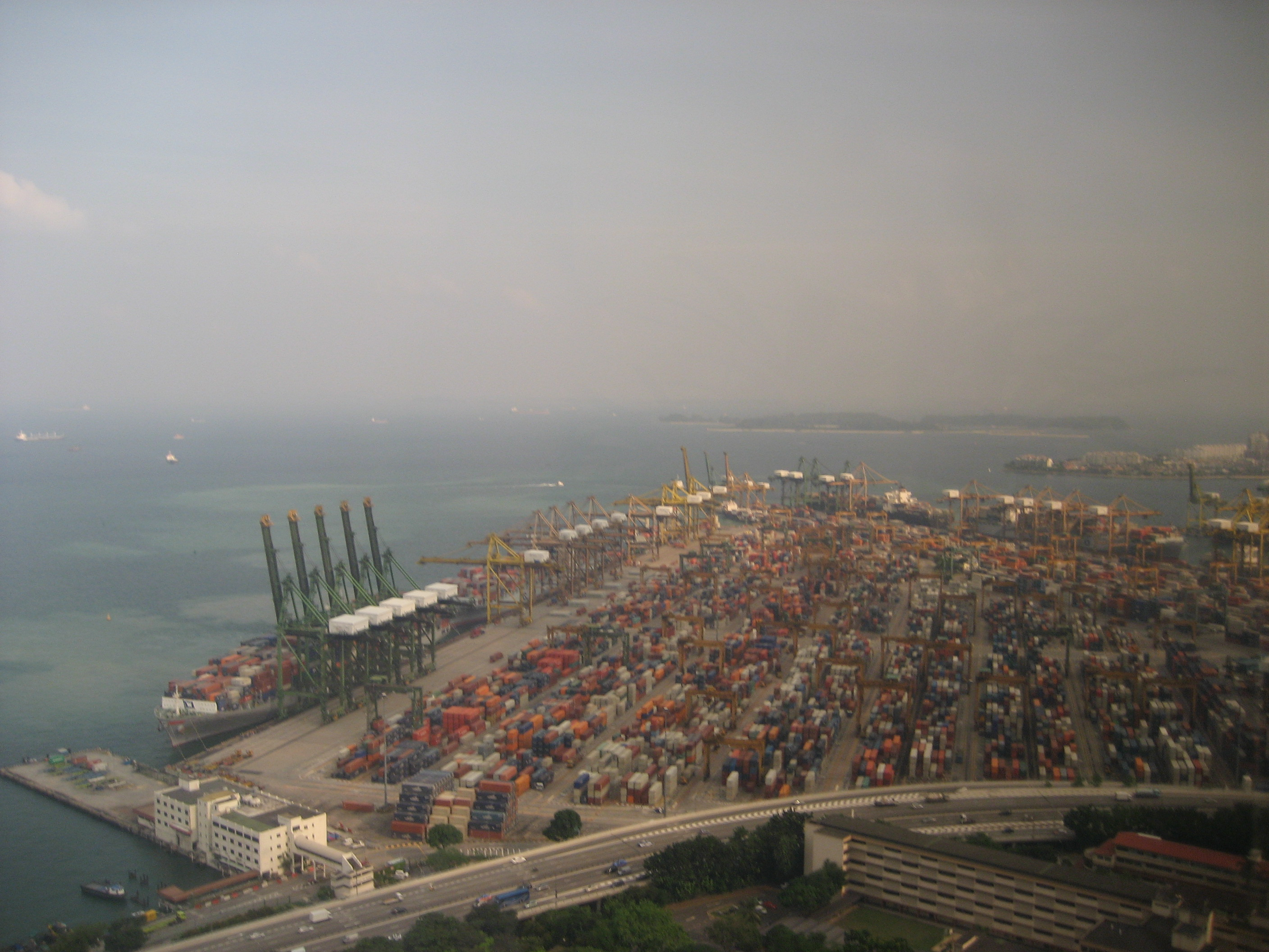 The literal cranes of commerce.